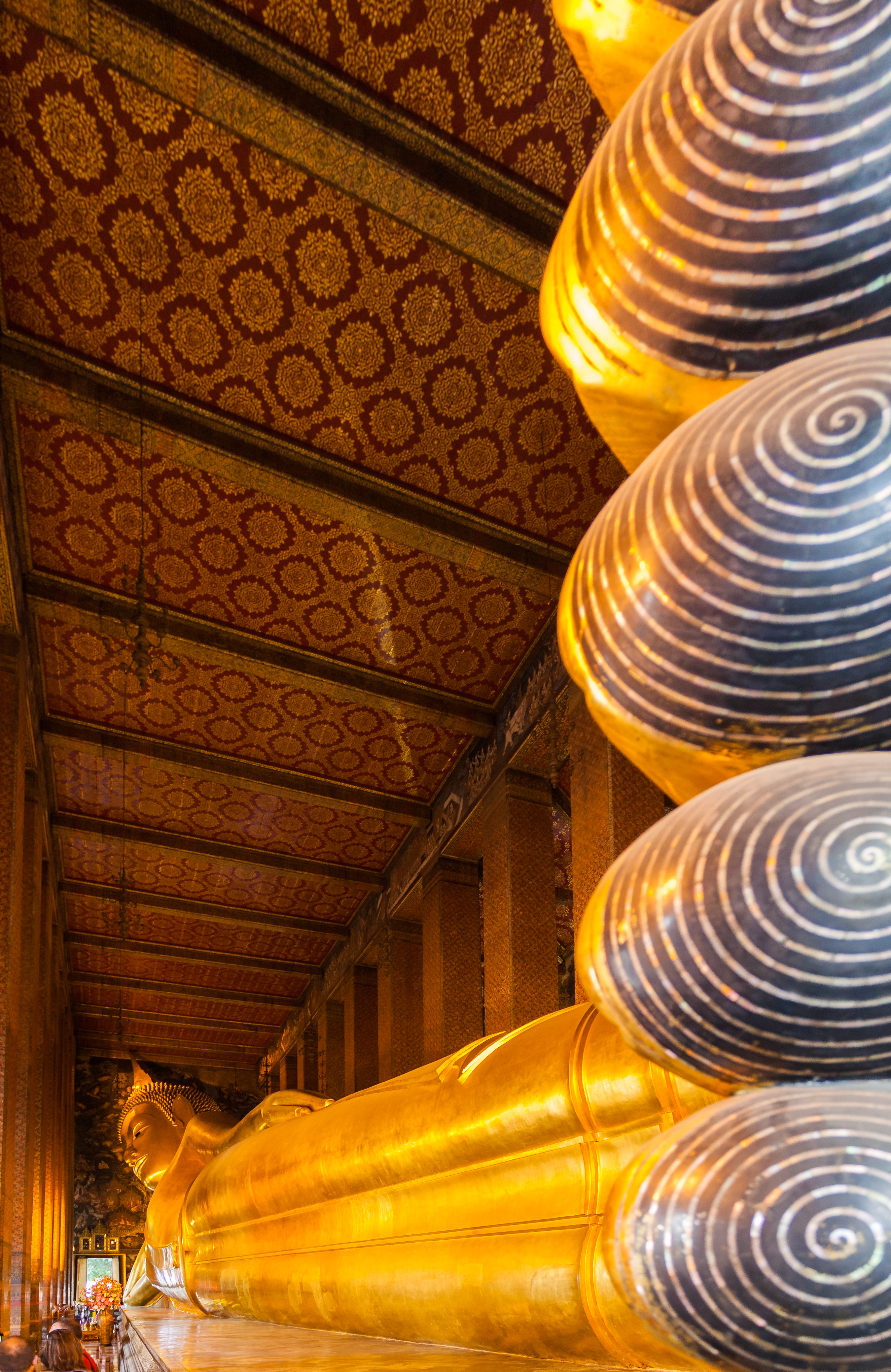 Reclining Buddha statue, Wat Pho, Bangkok, Thailand